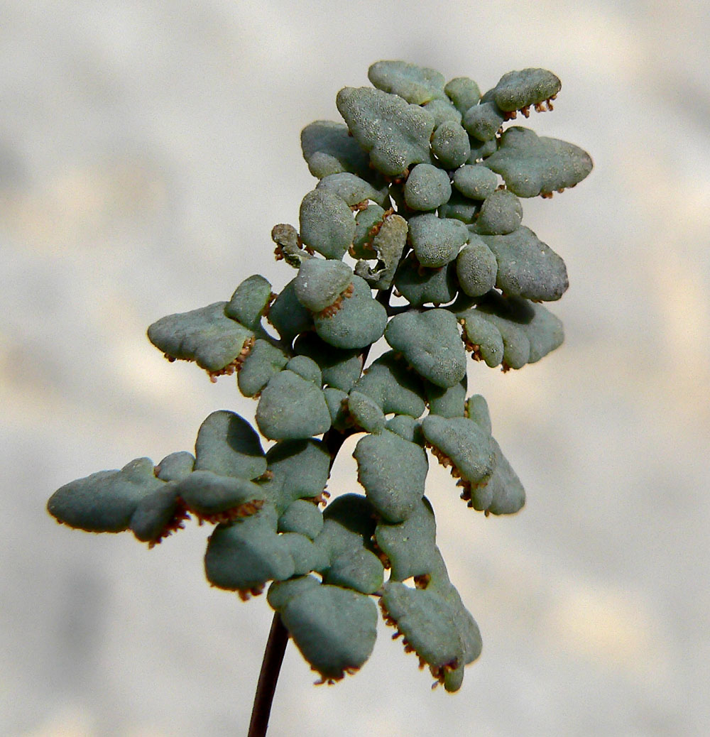 Argyrochosma jonesii next to the trail in the gully just west of Turtlehead Peak, Red Rock Canyon, southern Nevada